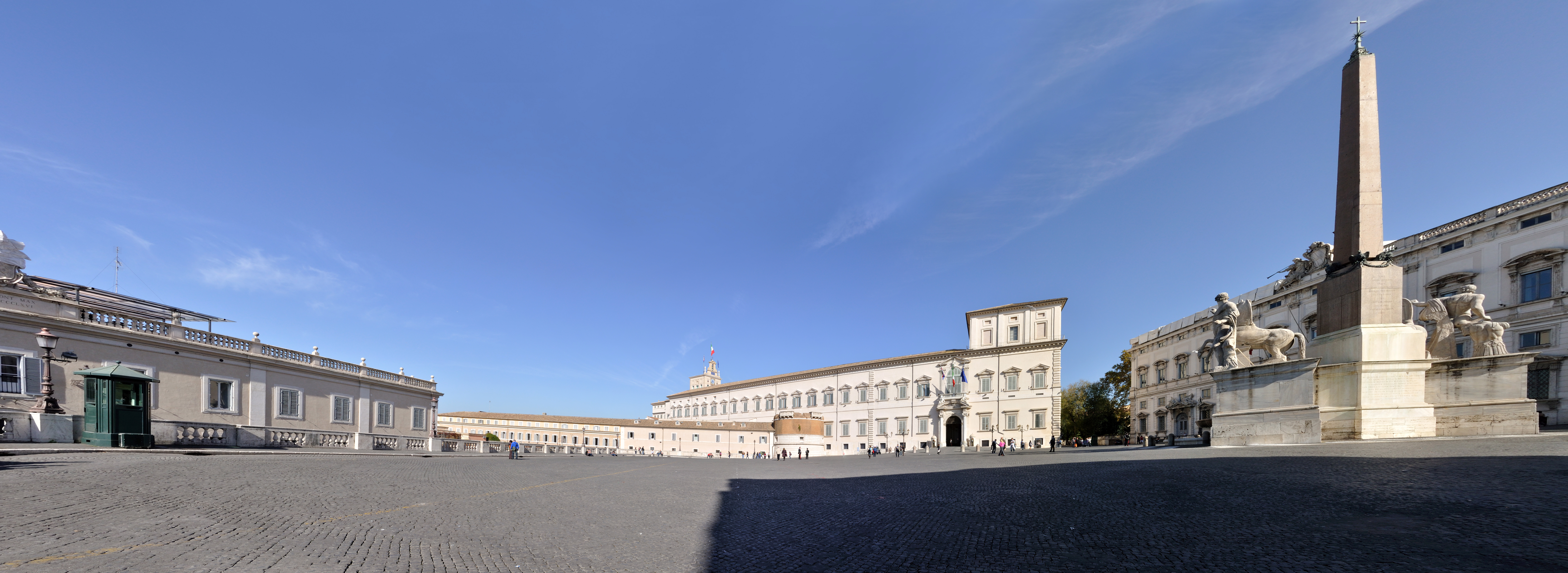 Piazza del Quirinale - Rome, Italy